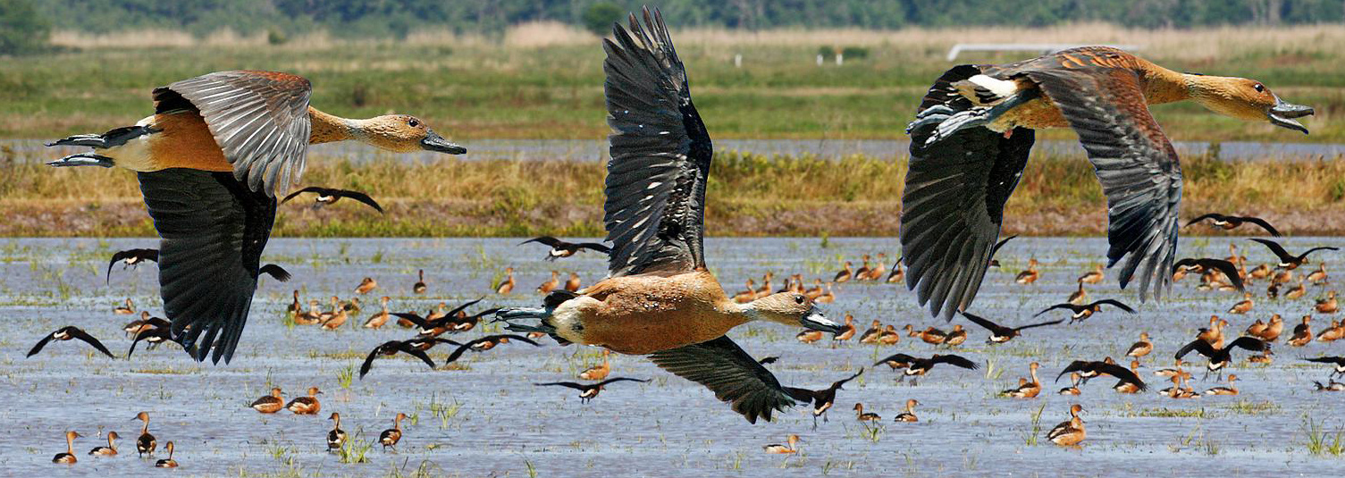 Dendrocygna bicolor in flight